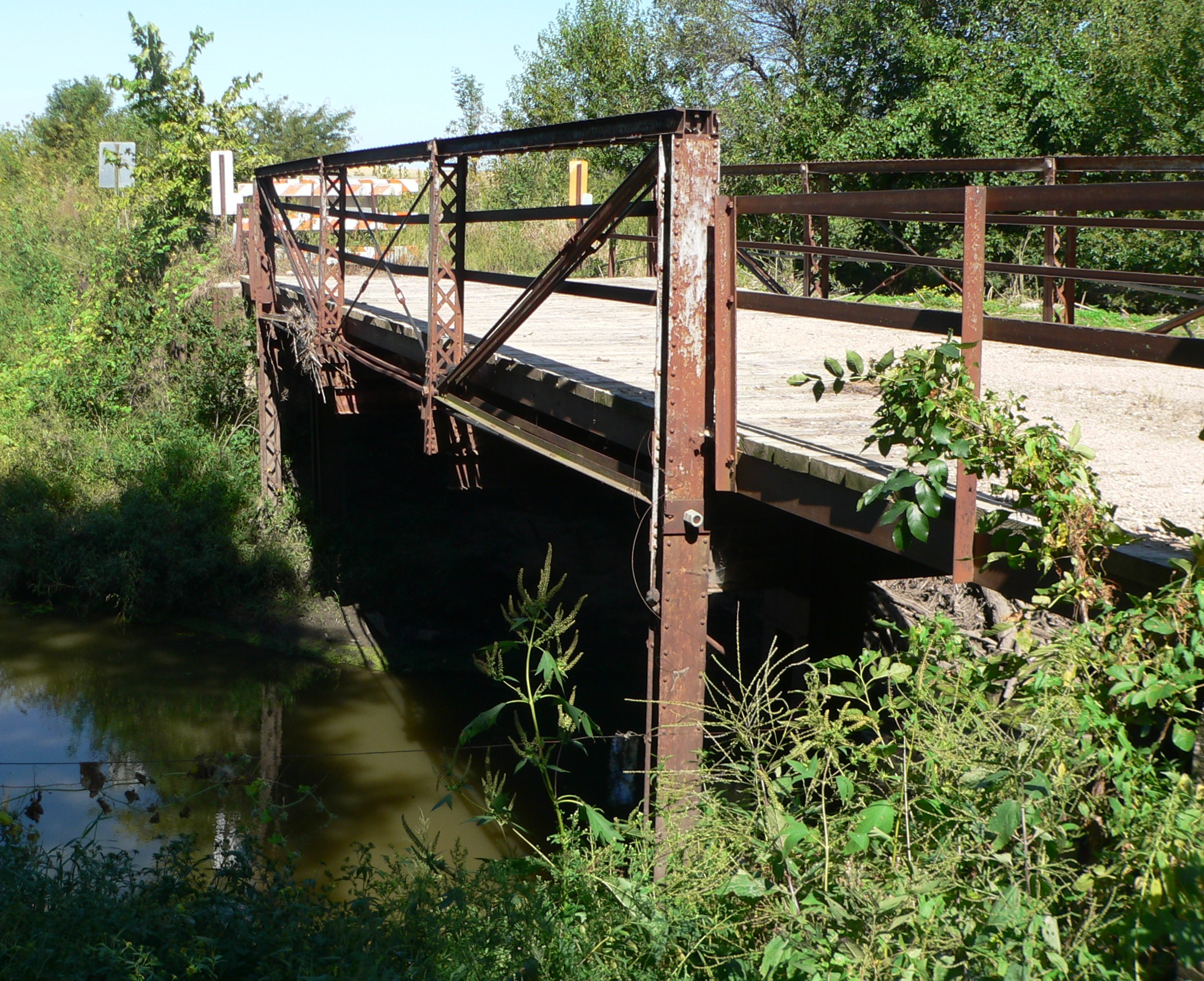 Big Blue River Bridge; seen from the southwest. The bridge is located in Butler County, Nebraska, where county road E crosses the Big Blue east-southeast of Surprise, Nebraska. It was built in 1897, and is listed in the National Register of Historic Places.